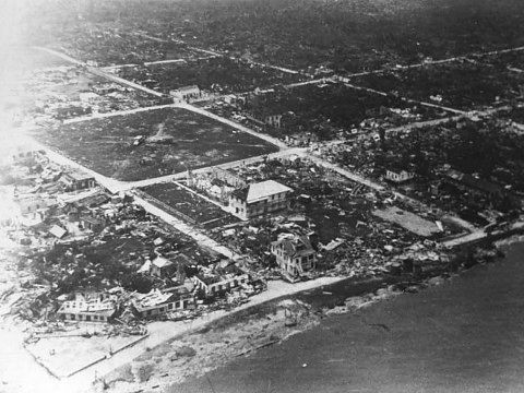 Damage in Corozal Town caused by Hurricane Janet in 1955.